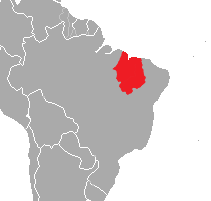 Derived from BlankMap-World and description in the text.